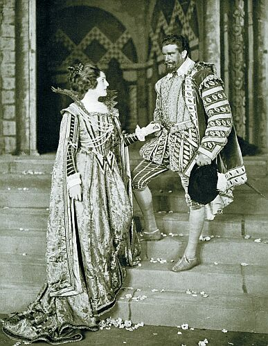 Amy Brandon-Thomas as Elizabeth Sydenham (Lady Drake) and Lyn Harding as Sir Francis Drake in Louis N. Parker's Drake at Her Majesty's Theatre, London